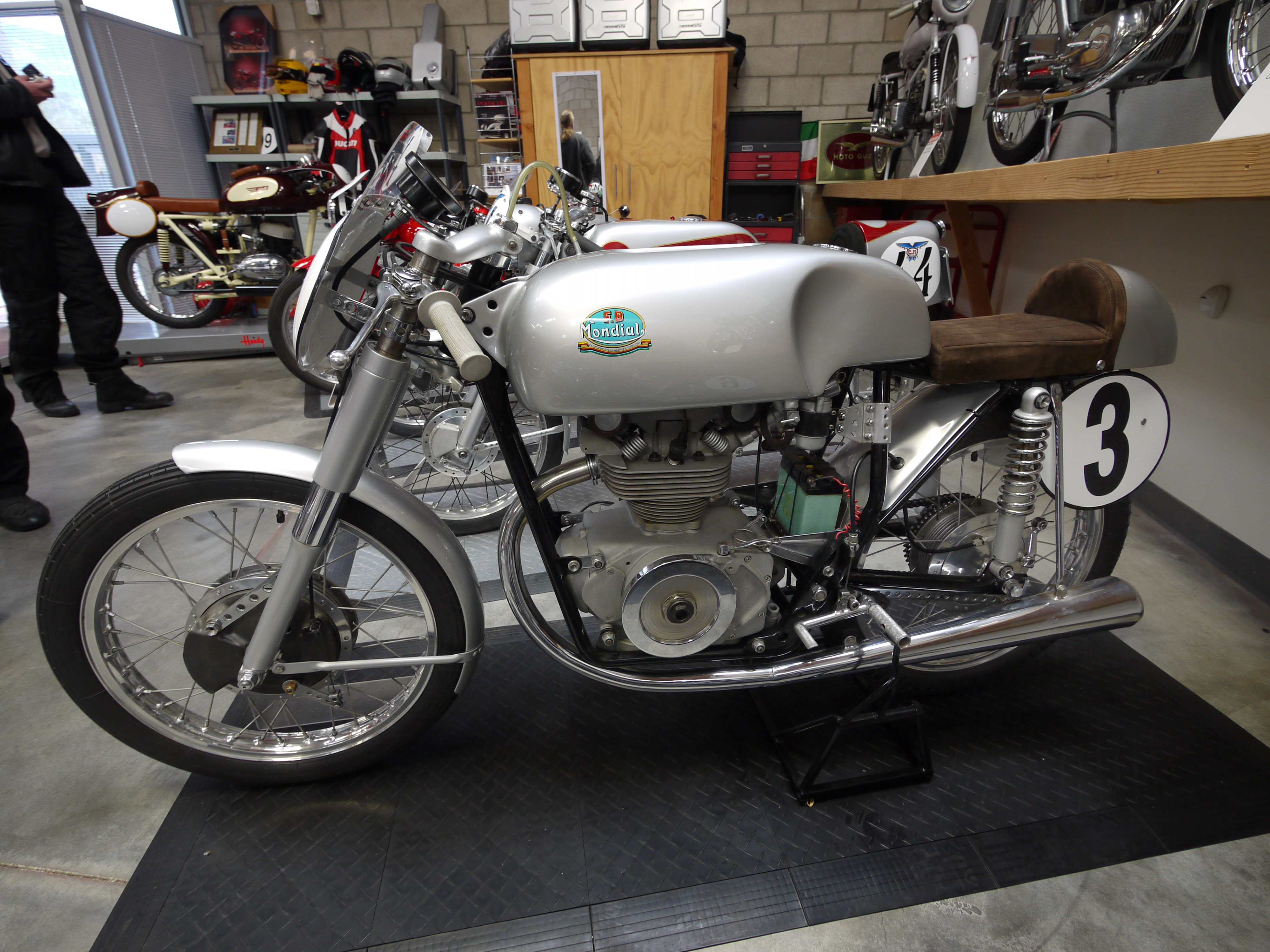 FB Mondial 175 DHOC F2, 1956, factory racer